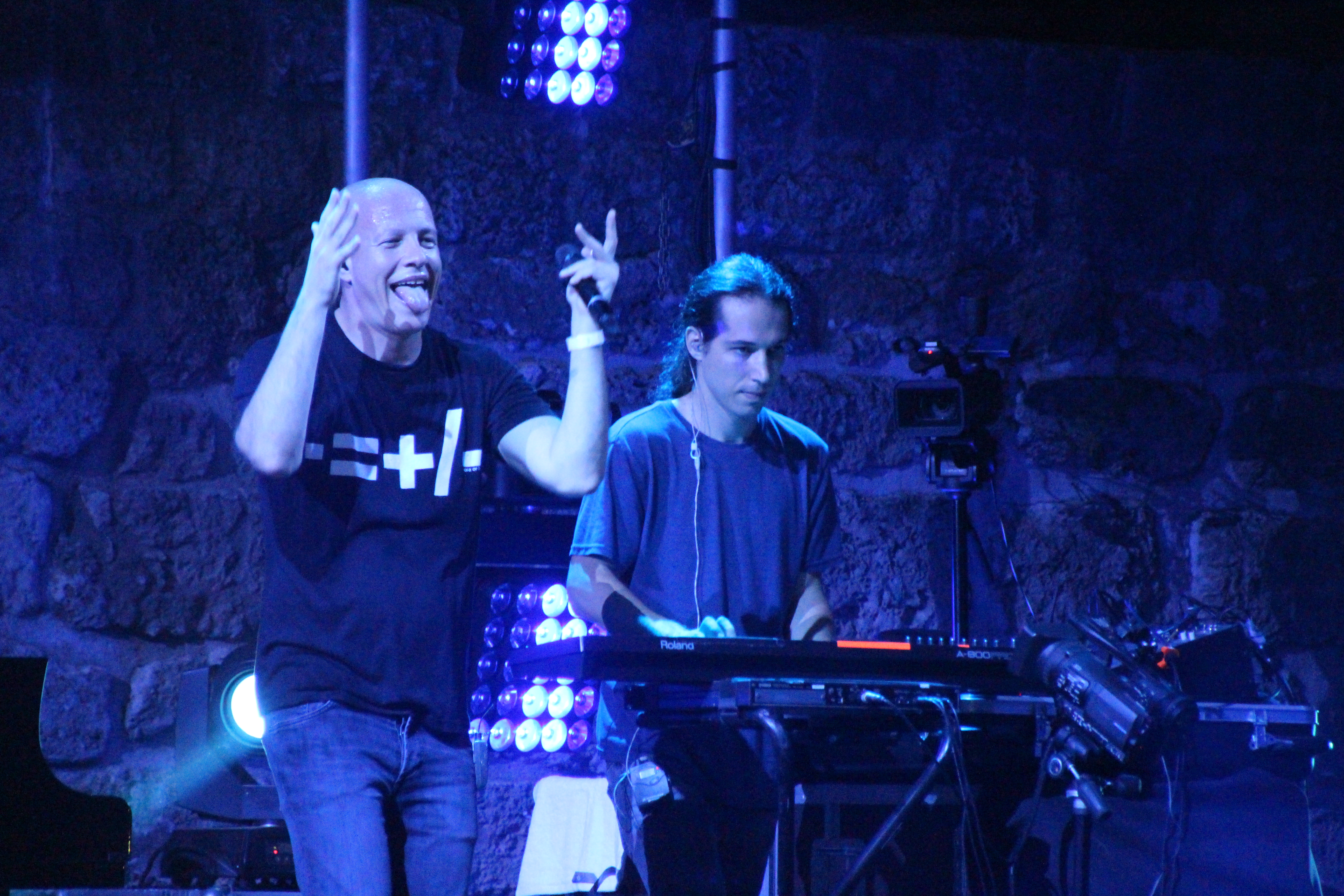 Infected Mushroom during their show in Amphi Shuni, September 2015.